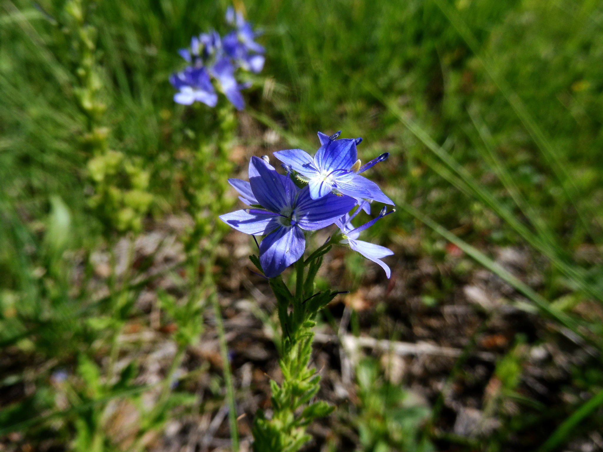 Veronica austriaca. In Cortiuda (Peramola - Alt Urgell - Catalunya). To 965 m. altitude